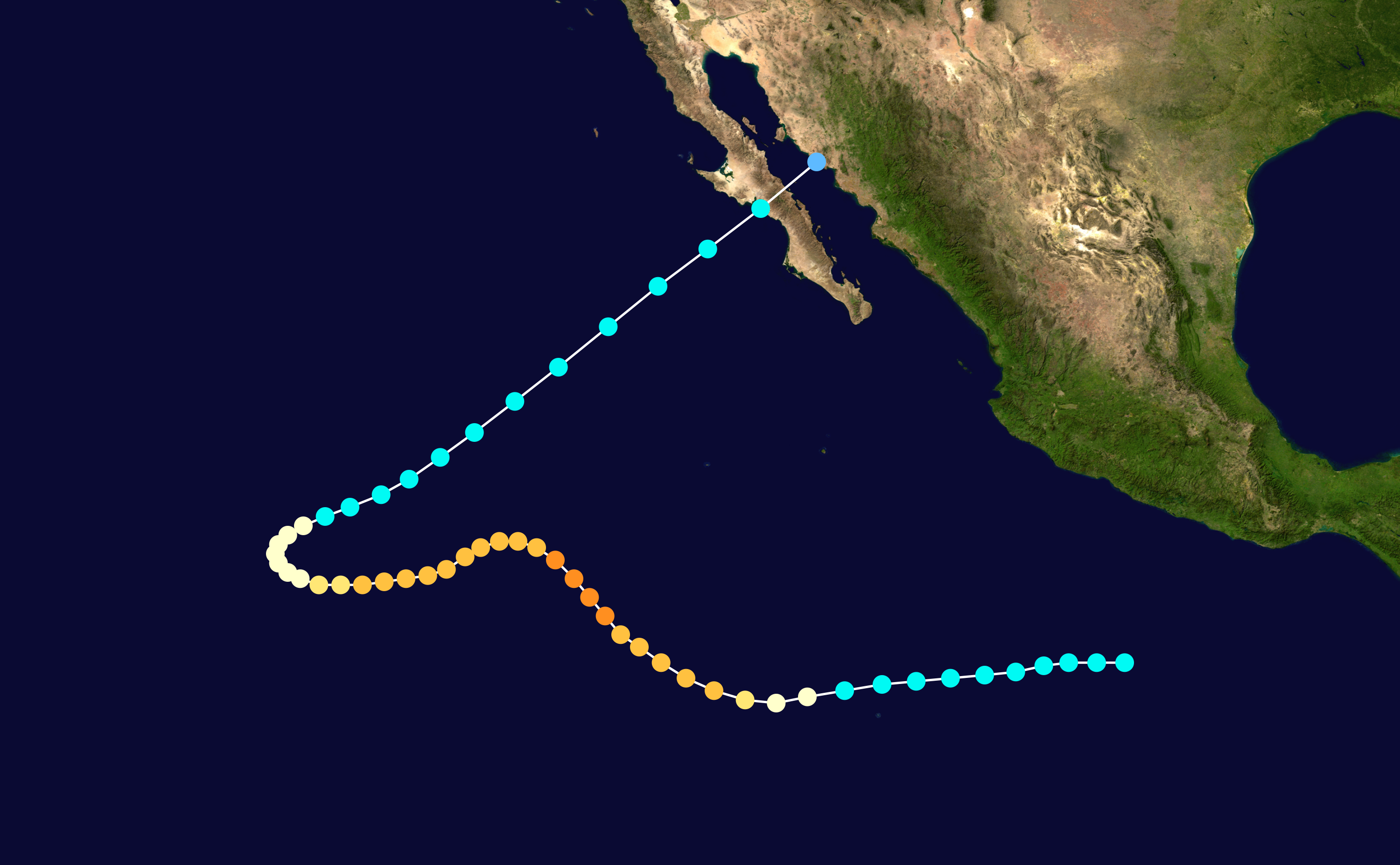 Track map of Hurricane Sergio of the 2018 Pacific hurricane season. The points show the location of the storm at 6-hour intervals. The colour represents the storm's maximum sustained wind speeds as classified in the Saffir–Simpson scale (see below), and the shape of the data points represent the nature of the storm, according to the legend below. Saffir–Simpson scale Tropical depression≤38 mph≤62 km/h Category 3111–129 mph178–208 km/h Tropical storm39–73 mph63–118 km/h Category 4130–156 mph209–251 km/h Category 174–95 mph119–153 km/h Category 5≥157 mph≥252 km/h Category 296–110 mph154–177 km/h Unknown Storm type Tropical cyclone Subtropical cyclone Extratropical cyclone / Remnant low / Tropical disturbance / Monsoon depression